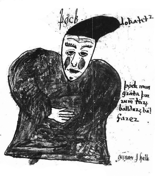 An illustration of Þökk, a figure from Norse mythology, from an Icelandic 17th century manuscript. A scan of a black and white photography.